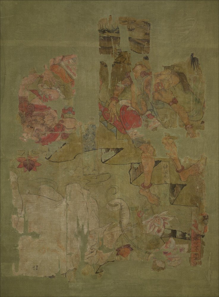 Fragmentary painting with part of the story of the contest between Śāriputra, Buddha's disciple, and the heretic leader, Raudraksa.